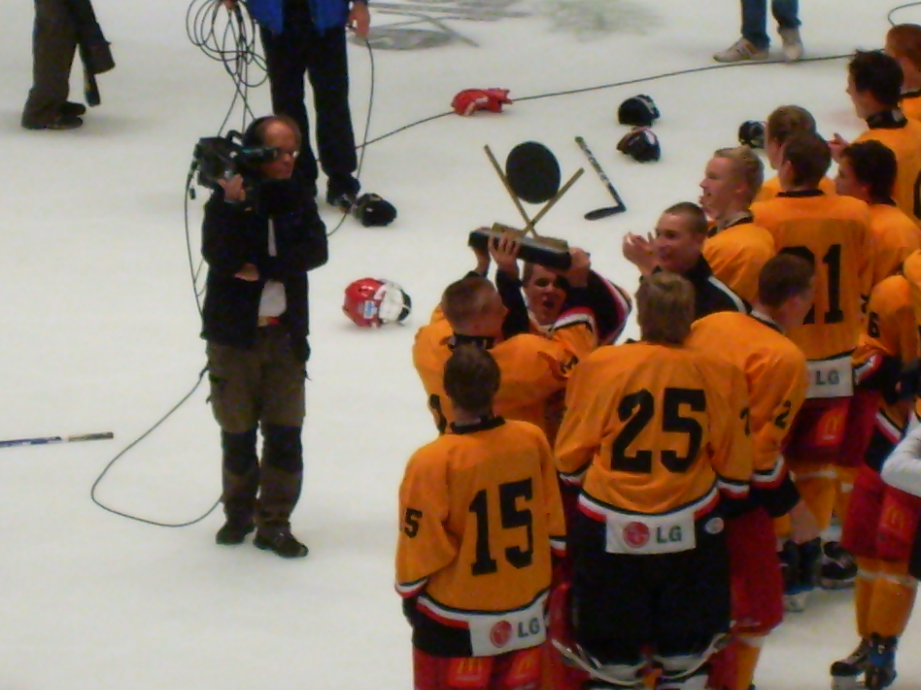 TV-Pucken, Swedish ice hockey tournament, the winners are Småland.